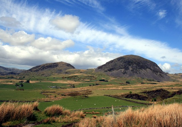 Manod Mawr near Ffestiniog Looking north east from the B4391.